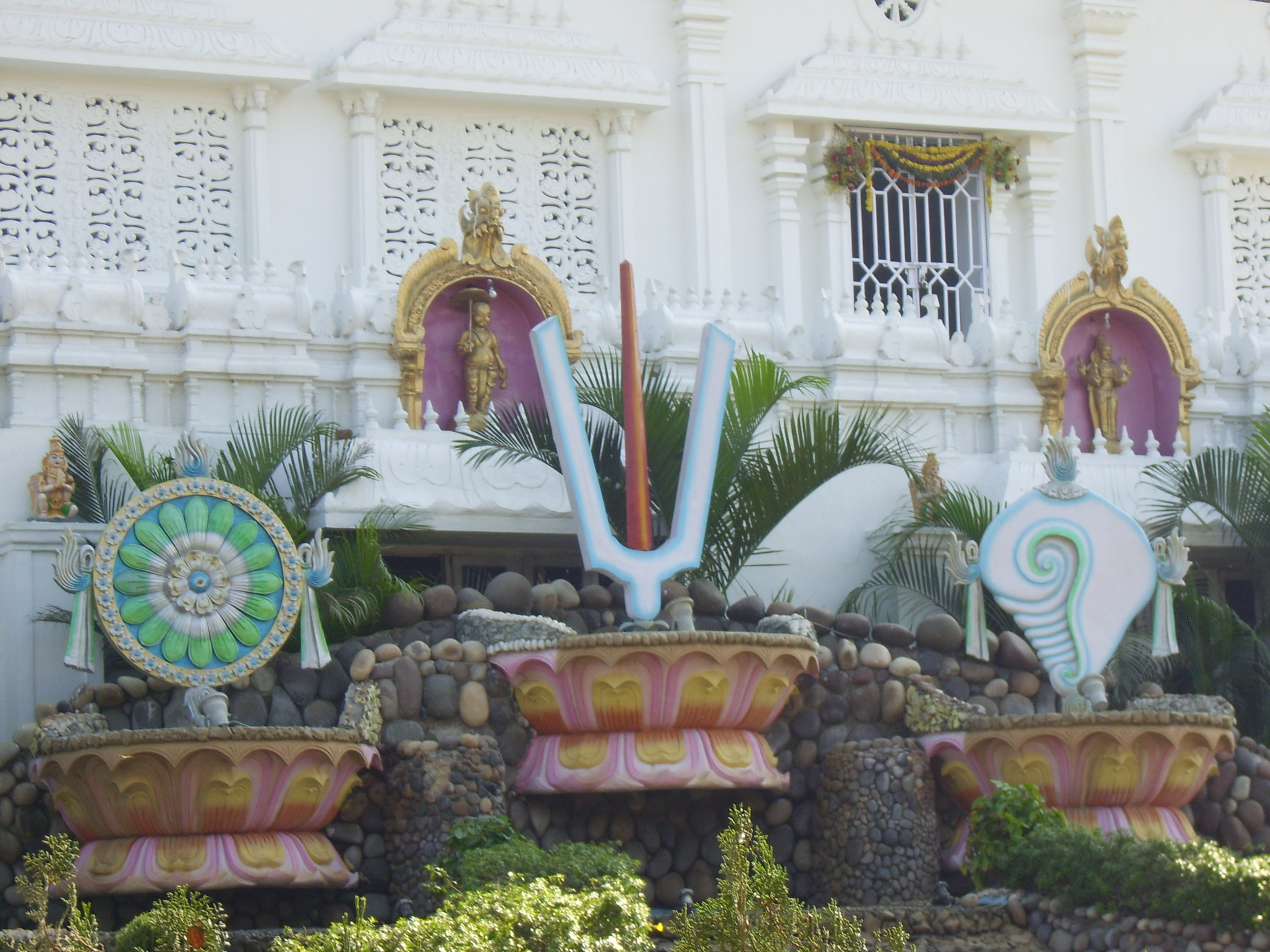 Ratnalayam Venkateswara Temple